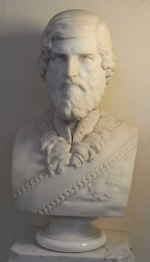 Brigadier General John Jacob, CB. (1812-1858) Marble bust at Taunton Shire Hall. Legend on pedestal: "Born at Woolavington, in the co. of Somerset, 11 Jan. 1812. He was dauntless, indefatigable and unselfish, a born General, a great Administrator, of original, organising mind. He died at his post, Jacobabad, on the frontier of British India, 15 December, 1858. An irreparable loss to his country and friends. Presented to the county of Somerset by John Marshall of Belmont"